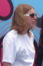 Inbal Schwartz